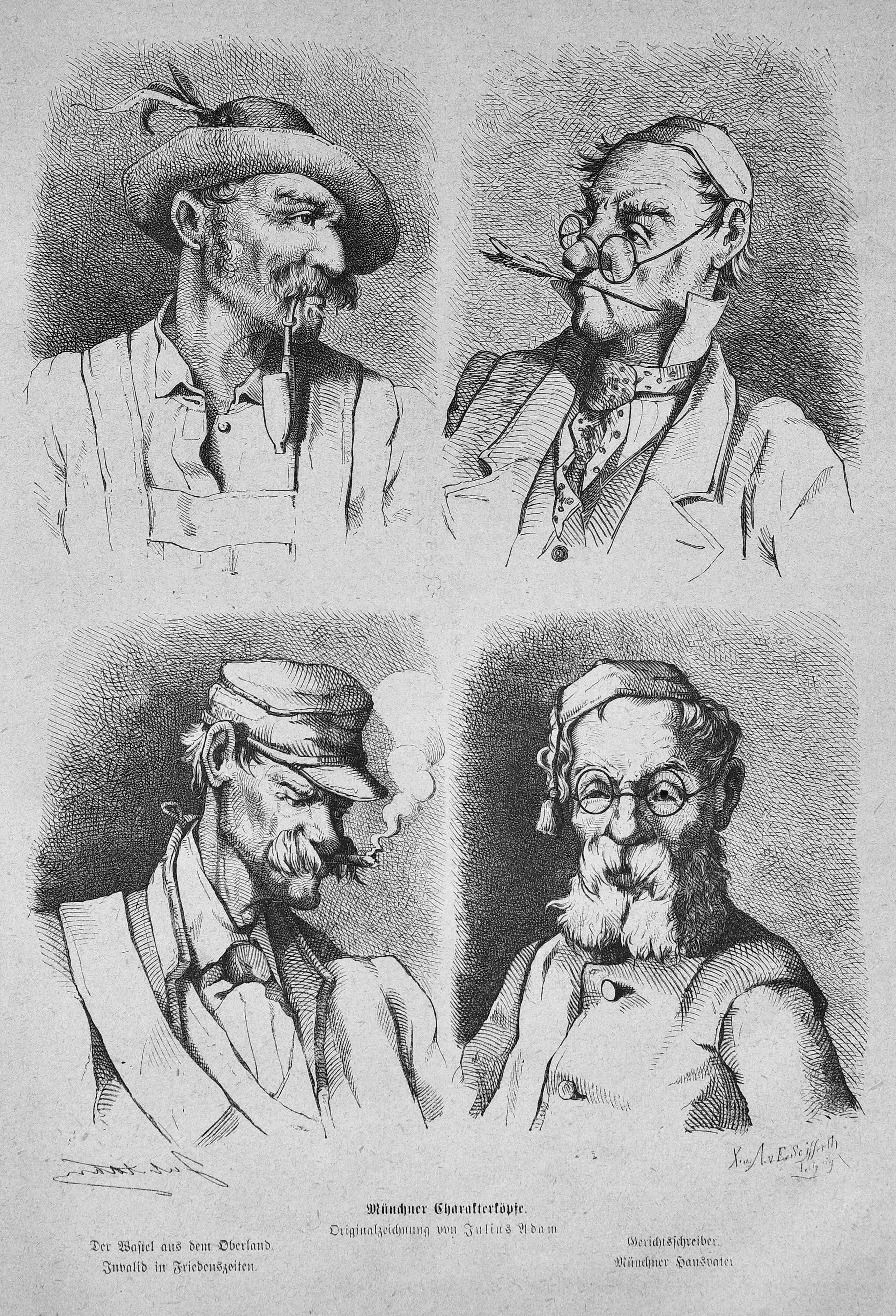 caption: "Münchner Charakterköpfe. Originalzeichnung von Julius Adam."